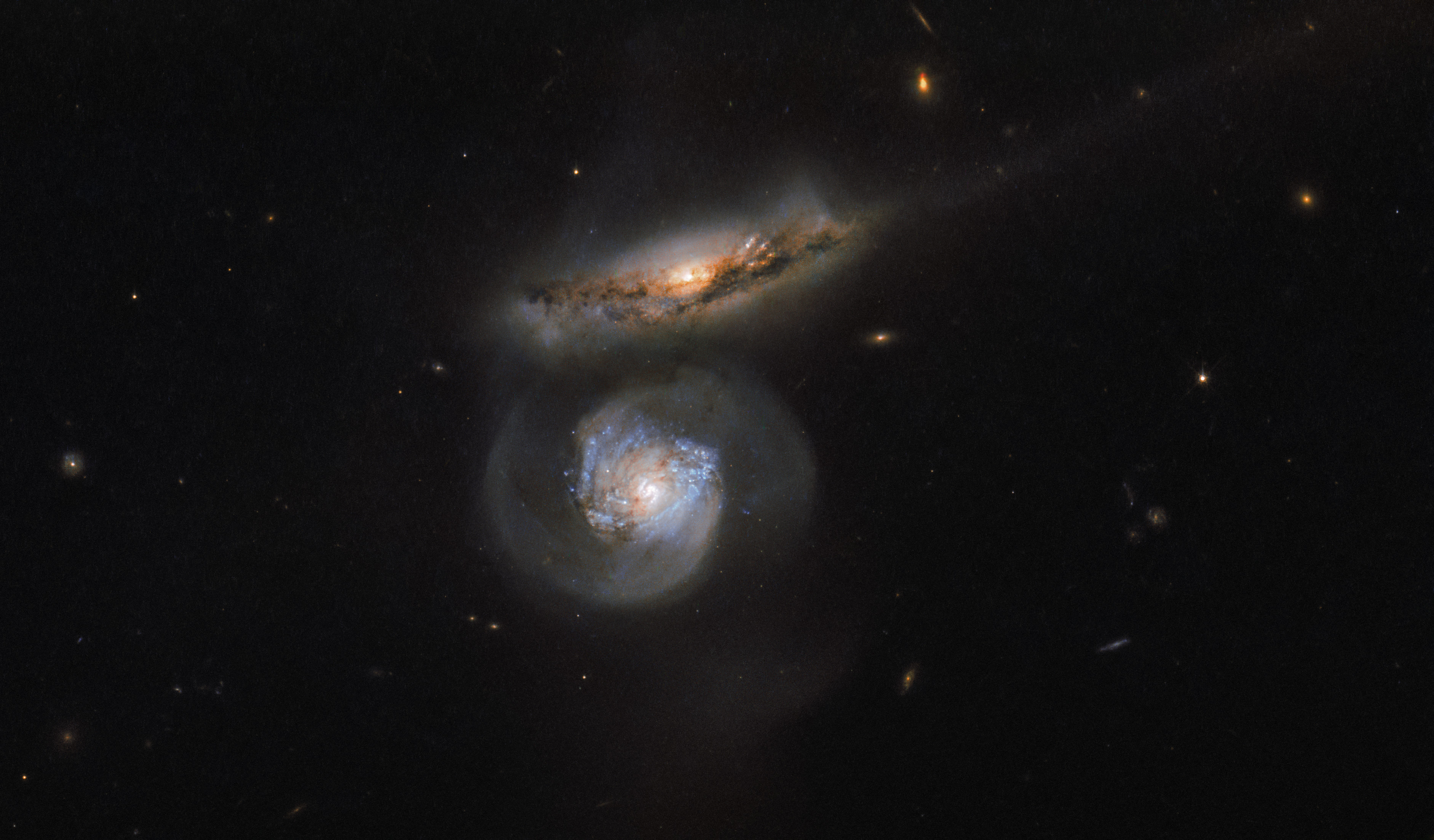 Phenomena across the Universe emit radiation spanning the entire electromagnetic spectrum — from high-energy gamma rays, which stream out from the most energetic events in the cosmos, to lower-energy microwaves and radio waves. Microwaves, the very same radiation that can heat up your dinner, are produced by a multitude of astrophysical sources, including strong emitters known as masers (microwave lasers), even stronger emitters with the somewhat villainous name of megamasers, and the centres of some galaxies. Especially intense and luminous galactic centres are known as active galactic nuclei. They are in turn thought to be driven by the presence of supermassive black holes, which drag surrounding material inwards and spit out bright jets and radiation as they do so. The two galaxies shown here, imaged by the NASA/ESA Hubble Space Telescope, are named MCG+01-38-004 (the upper, red-tinted one) and MCG+01-38-005 (the lower, blue-tinted one). MCG+01-38-005 is a special kind of megamaser; the galaxy’s active galactic nucleus pumps out huge amounts of energy, which stimulates clouds of surrounding water. Water’s constituent atoms of hydrogen and oxygen are able to absorb some of this energy and re-emit it at specific wavelengths, one of which falls within the microwave regime. MCG+01-38-005 is thus known as a water megamaser! Astronomers can use such objects to probe the fundamental properties of the Universe. The microwave emissions from MCG+01-38-005 were used to calculate a refined value for the Hubble constant, a measure of how fast the Universe is expanding. This constant is named after the astronomer whose observations were responsible for the discovery of the expanding Universe and after whom the Hubble Space Telescope was named, Edwin Hubble.